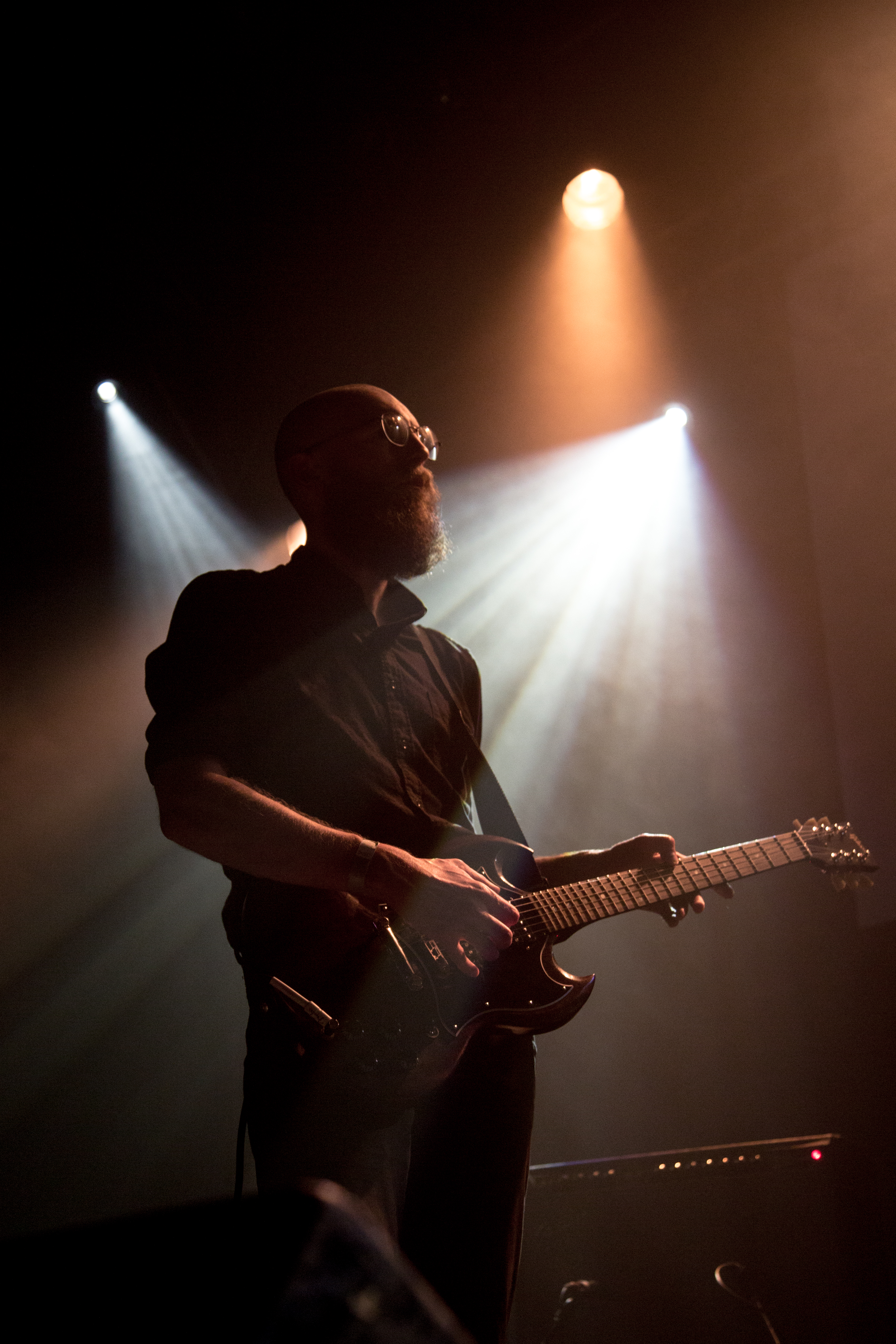 Esben and the Witch at Melting Sounds Festival in Essen, Germany